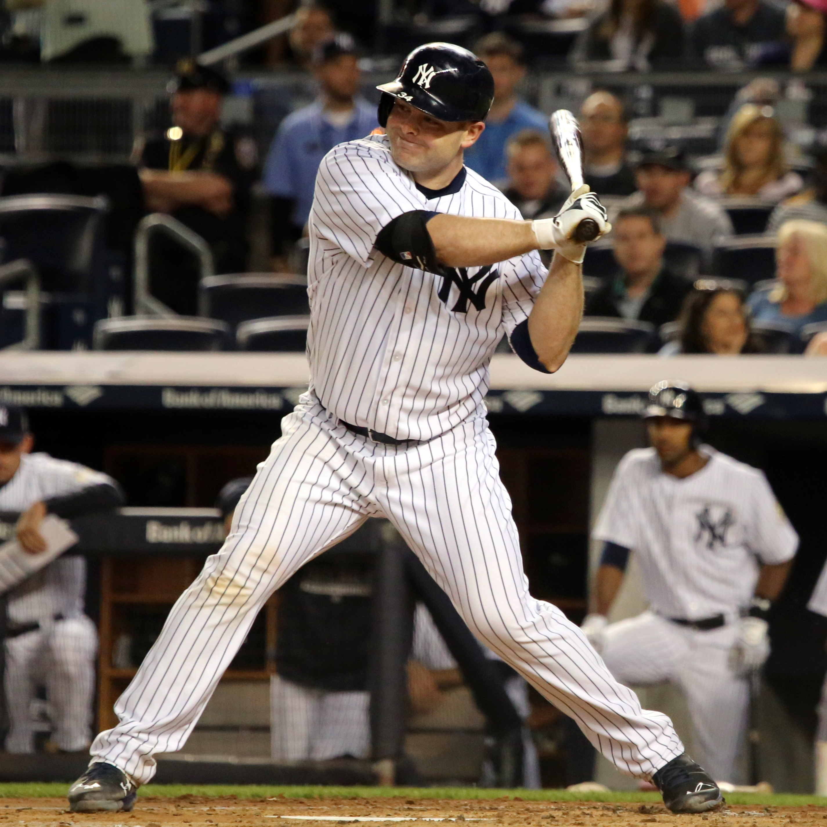 Brian McCann